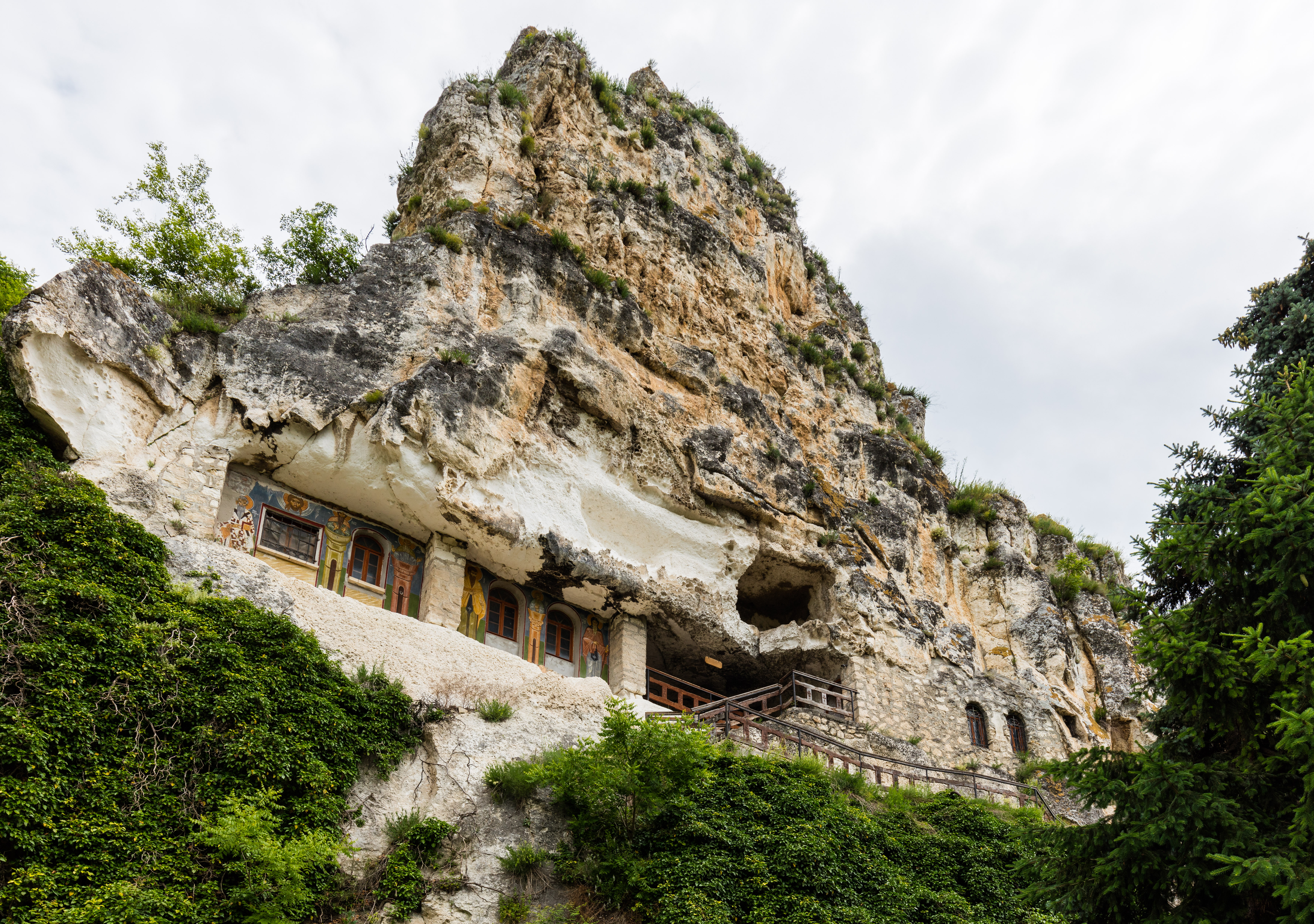 Rock-monatery "St. Dimitr Basrbovski" in Basarbovo, Bulgaria